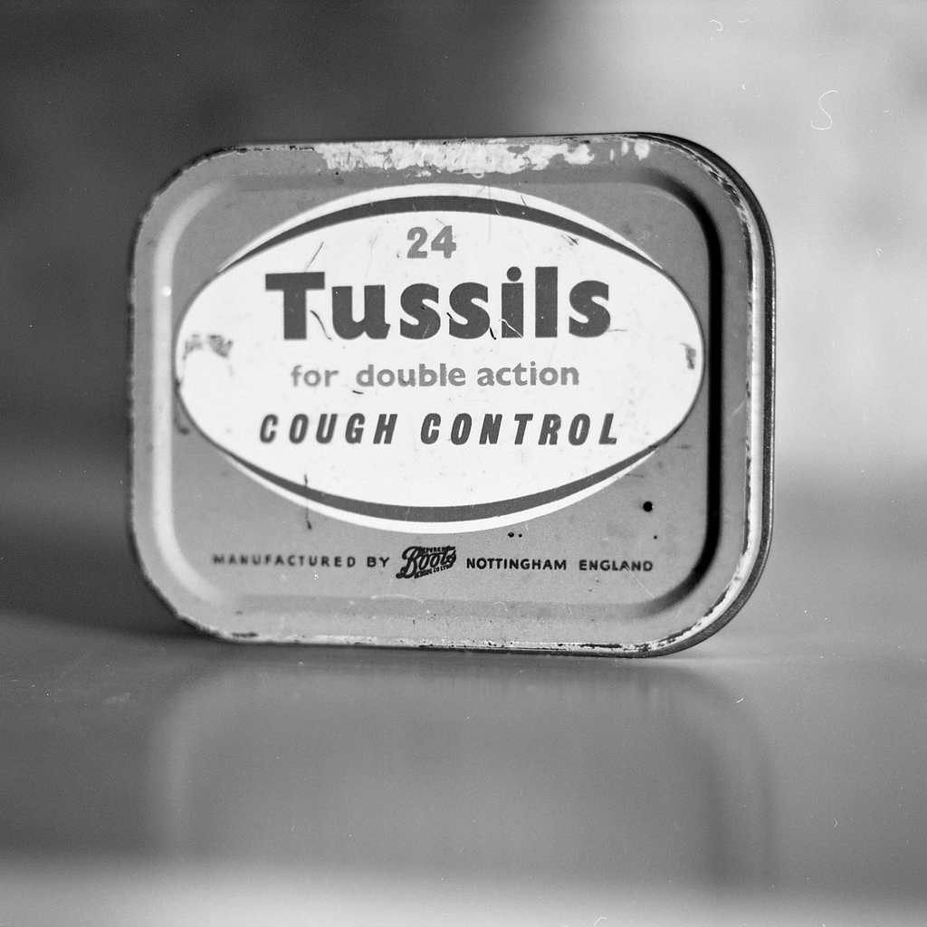 Modern photograph taken on black and white film with a Mamiya C330f.